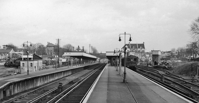 Beckenham Junction Station. View eastward, towards Bromley South, Chatham, Ramsgate/Dover etc., ex-LC&D main line; on right in bay, train for Victoria via Crystal Palace.